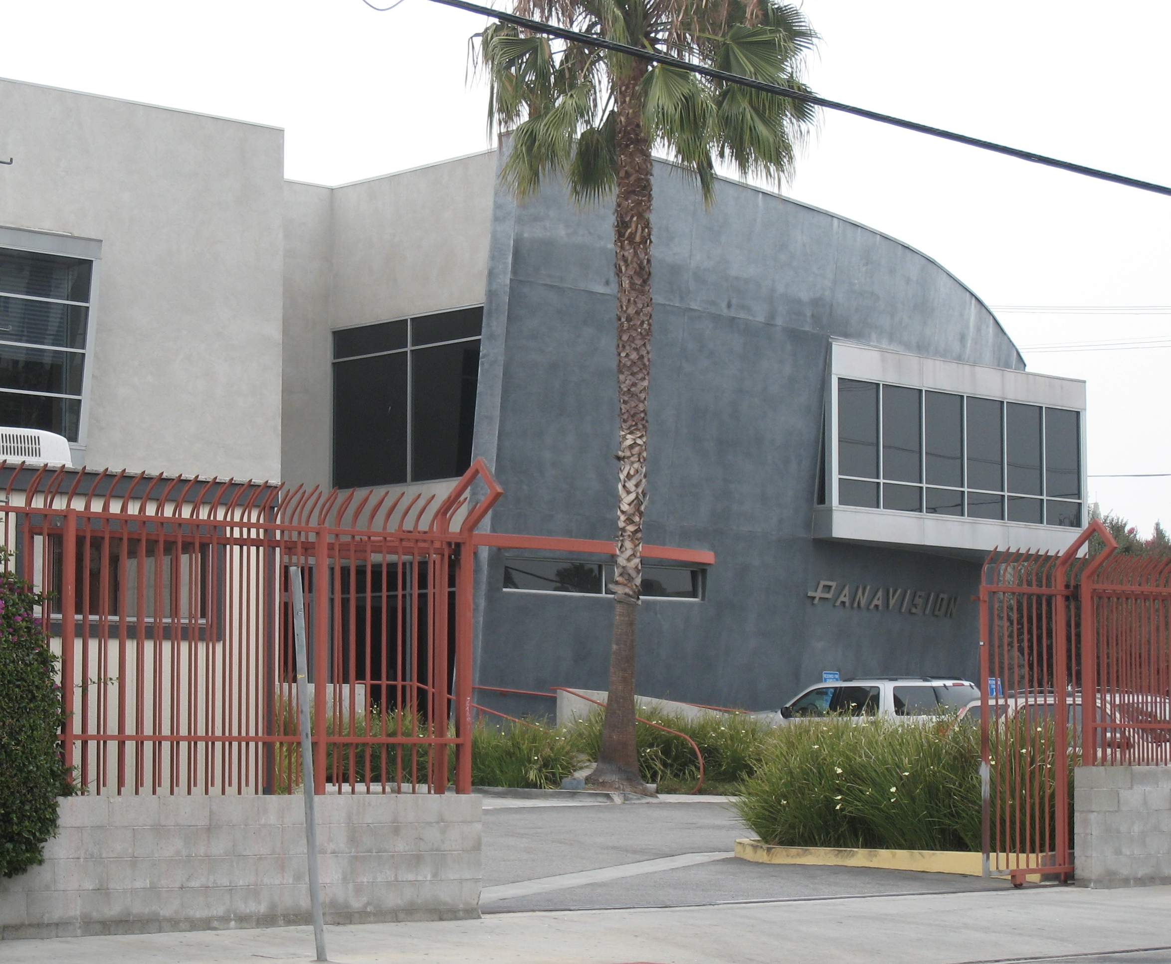 Panavision in Hollywood, California